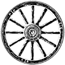 The wheel of Adyghe Habze cosmology, representing the structure of the universe articulating from god Tha (the hub).